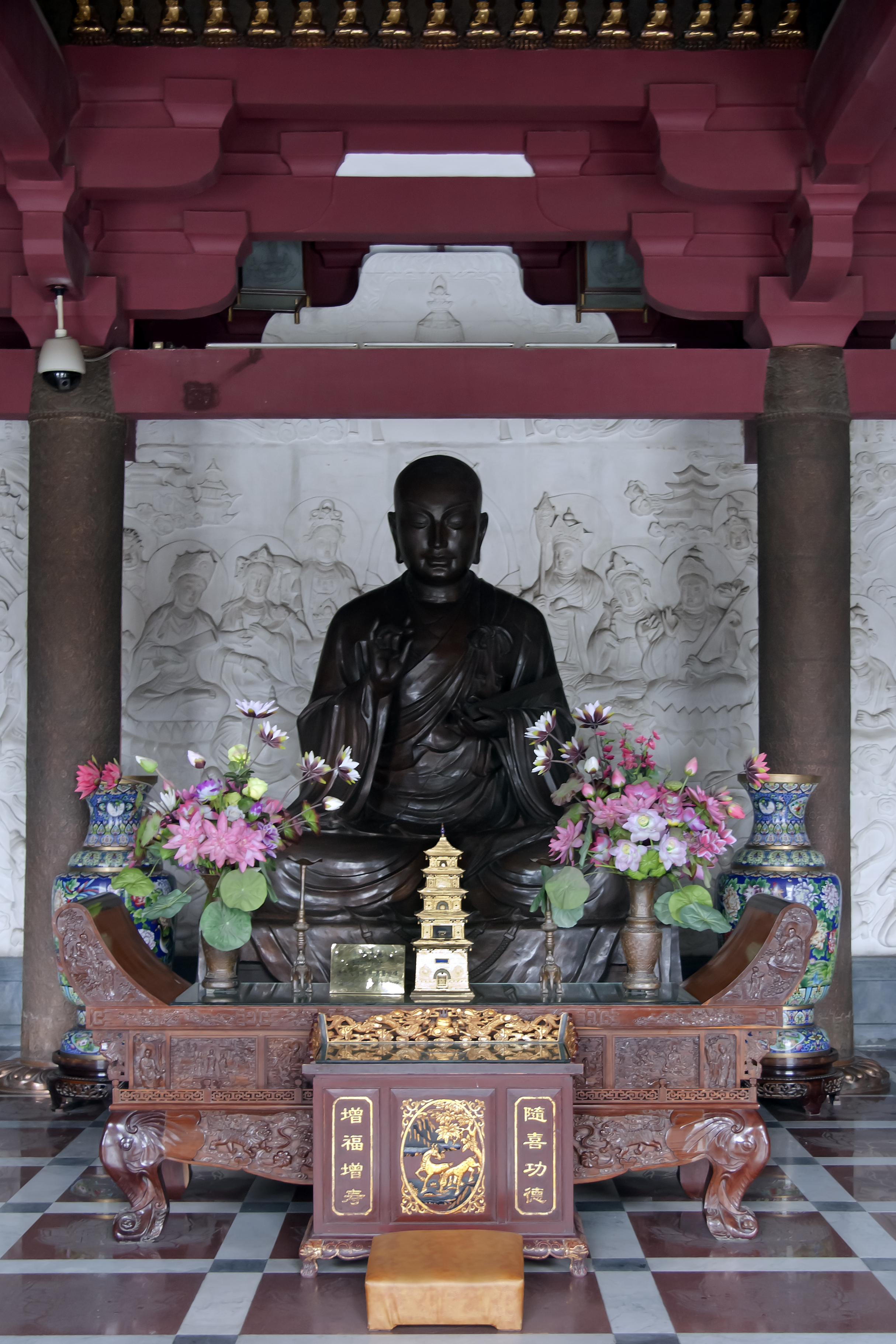 Bronze statue of Chinese Buddhist monk Xuanzang in the Tripitaka Master of Dharma Hall at the Giant Wild Goose Pagoda in Xi'an.